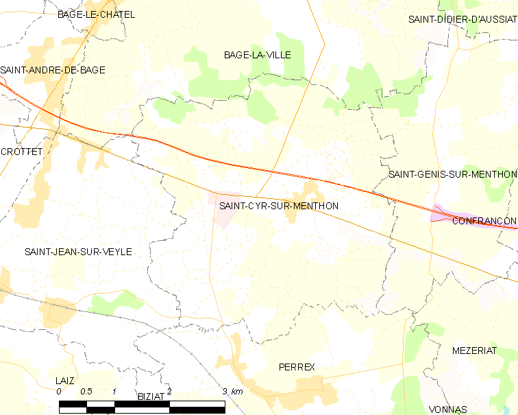 Map of French commune: Saint-Cyr-sur-Menthon Map commune FR insee code 01343.png